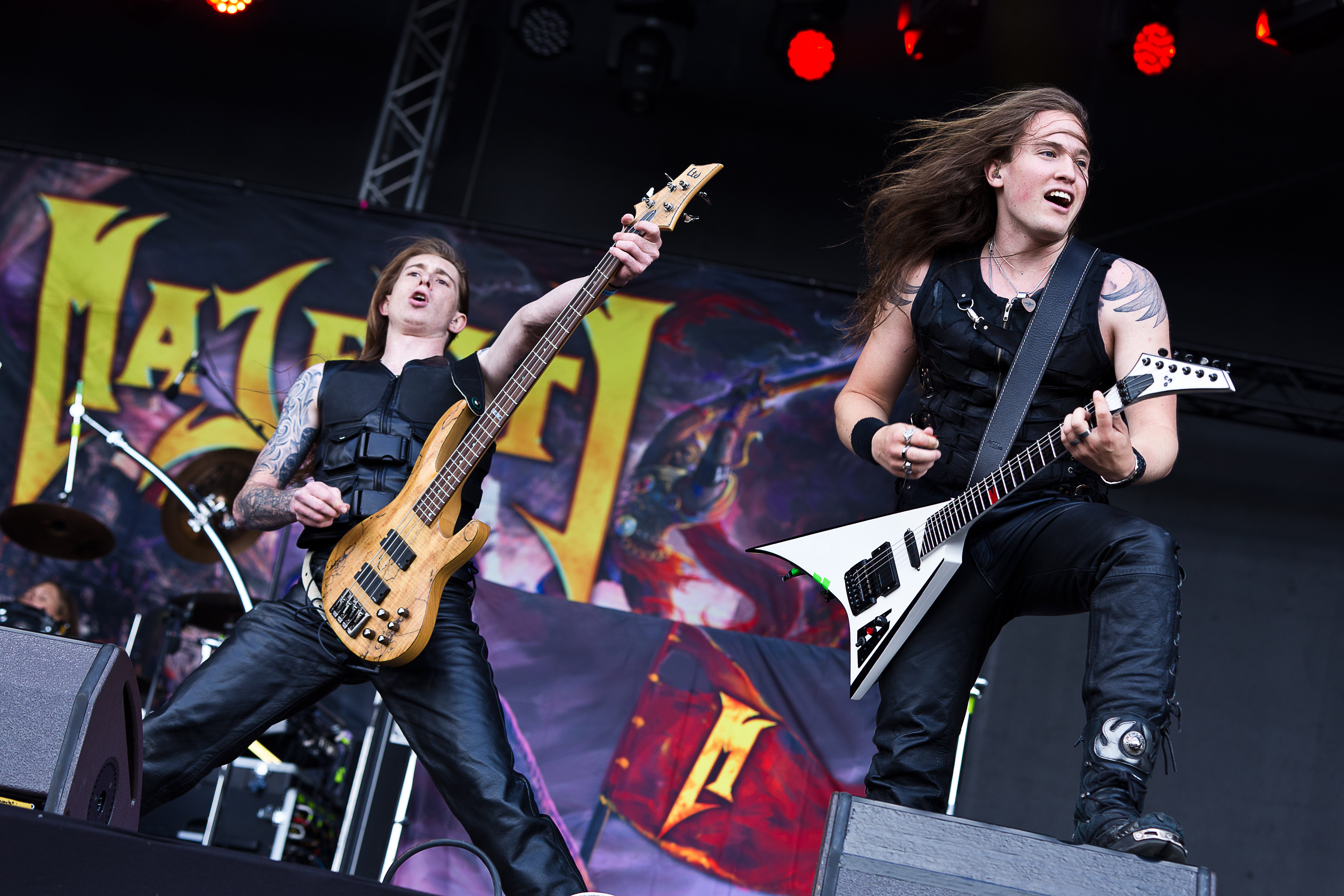 The German heavy metal band Majesty at the Rockharz Open Air 2015 in Ballenstedt/Germany.